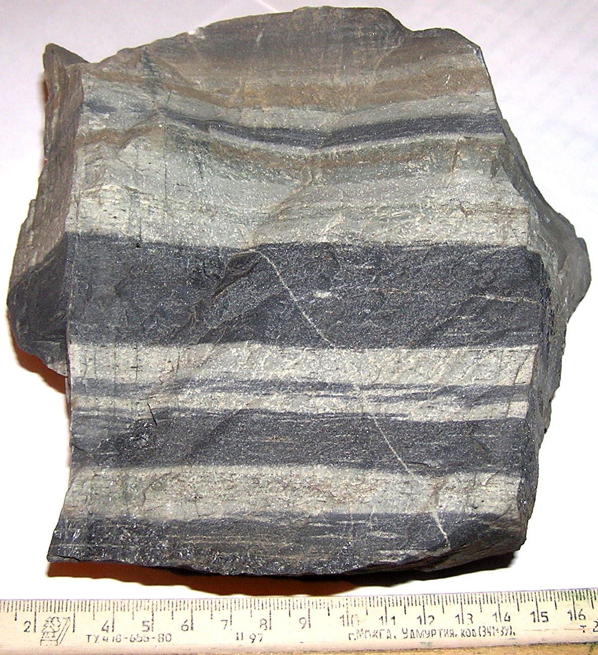 A sample of banded hornfels from Borok quarry in Novosibirsk. Hornfels formed by heating of sandstones and siltstones by the Insskoy series of granite intrusions.